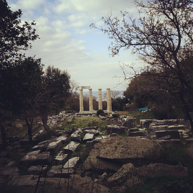 500px provided description: Cadmilus [#samothraki]